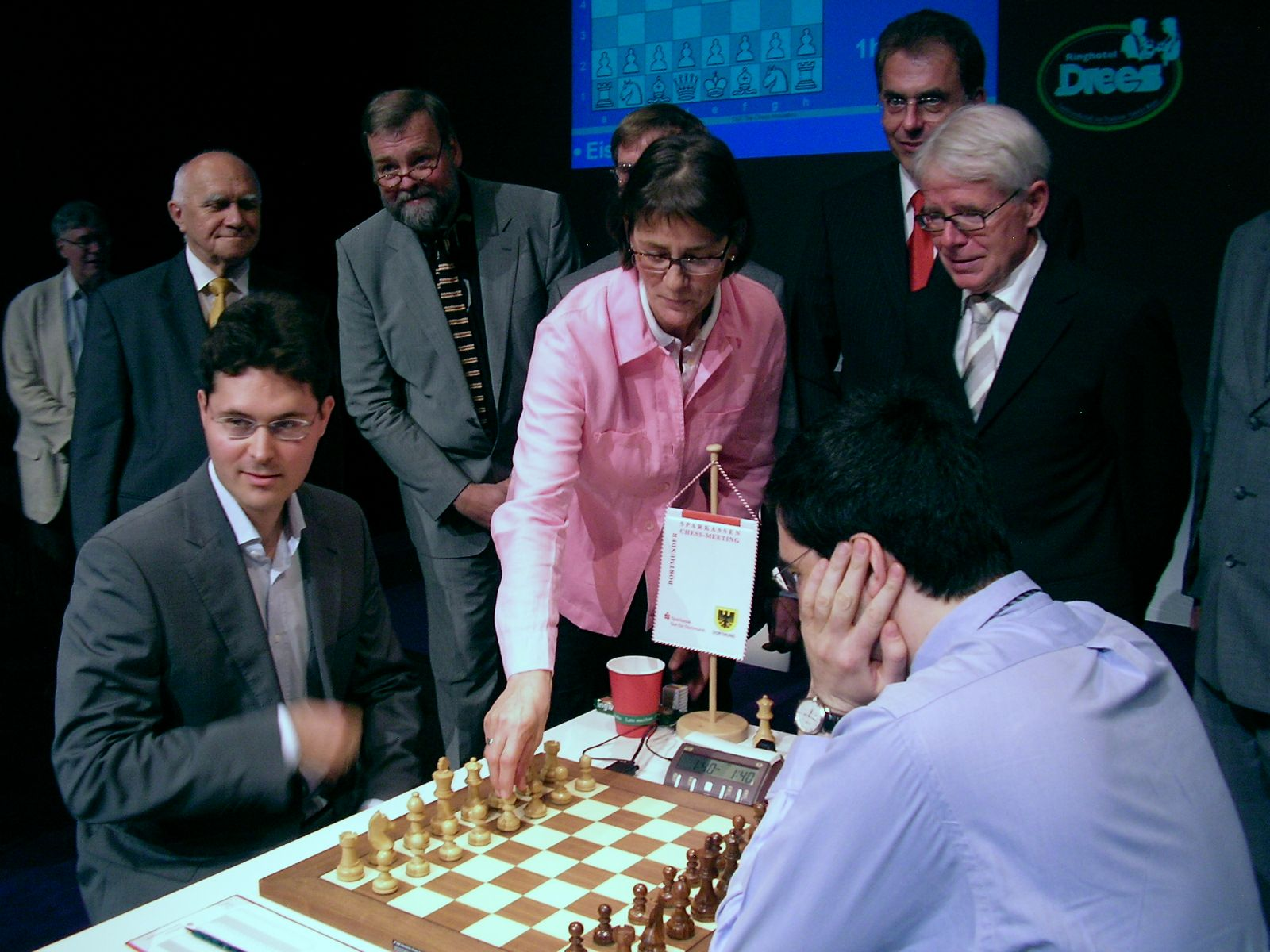 Leko - Kramnik, first move of the burgomaster Birgit Jörder, Dortmunder Schachtage 2009, Photographer Gerhard Hund.